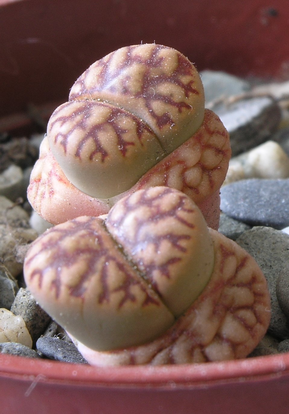 Lithops bromfieldii changing leaf pair (plant collection of Ivan I. Boldyrev, Berdsk, Russia)